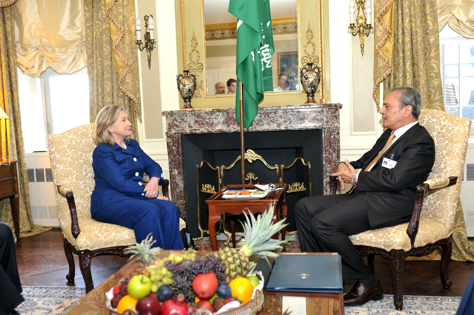 U.S. Secretary of State Hillary Rodham Clinton holds a bilateral meeting with Saudi Foreign Minister Saud al Faisal at the Waldorf-Astoria in New York, New York, on September 21, 2010. [State Department photo/ Public Domain]